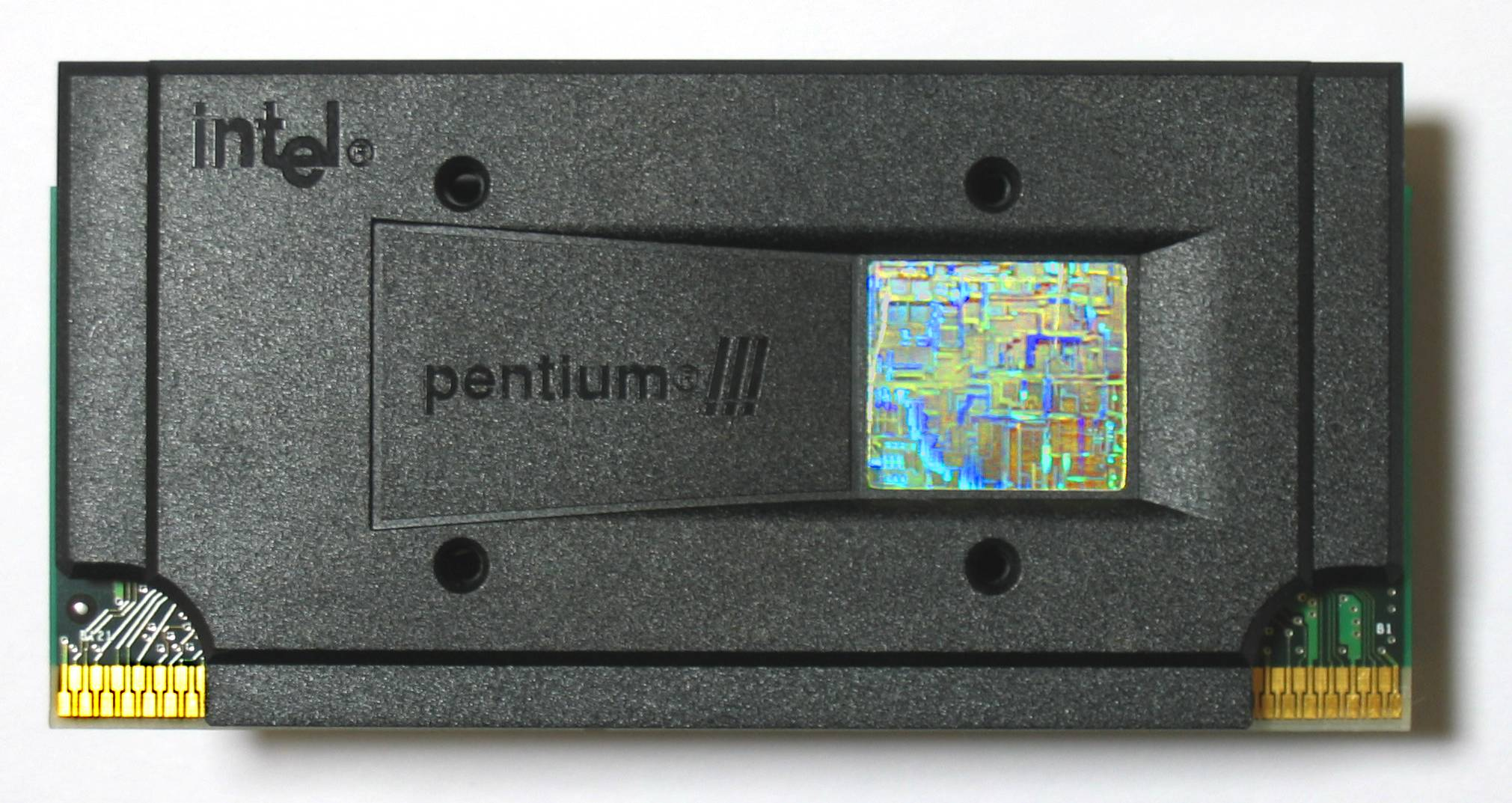 Intel Pentium III processor 733 MHz S.E.C.C.2 (733/256/133/1.65V S1 Philippines)